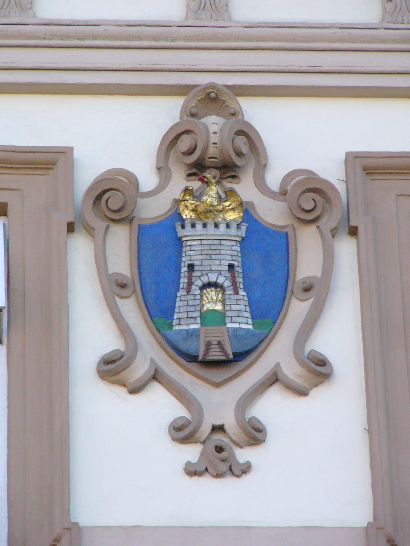 Coat of arms of Nová Ulice in Olomouc (Czech Republic).